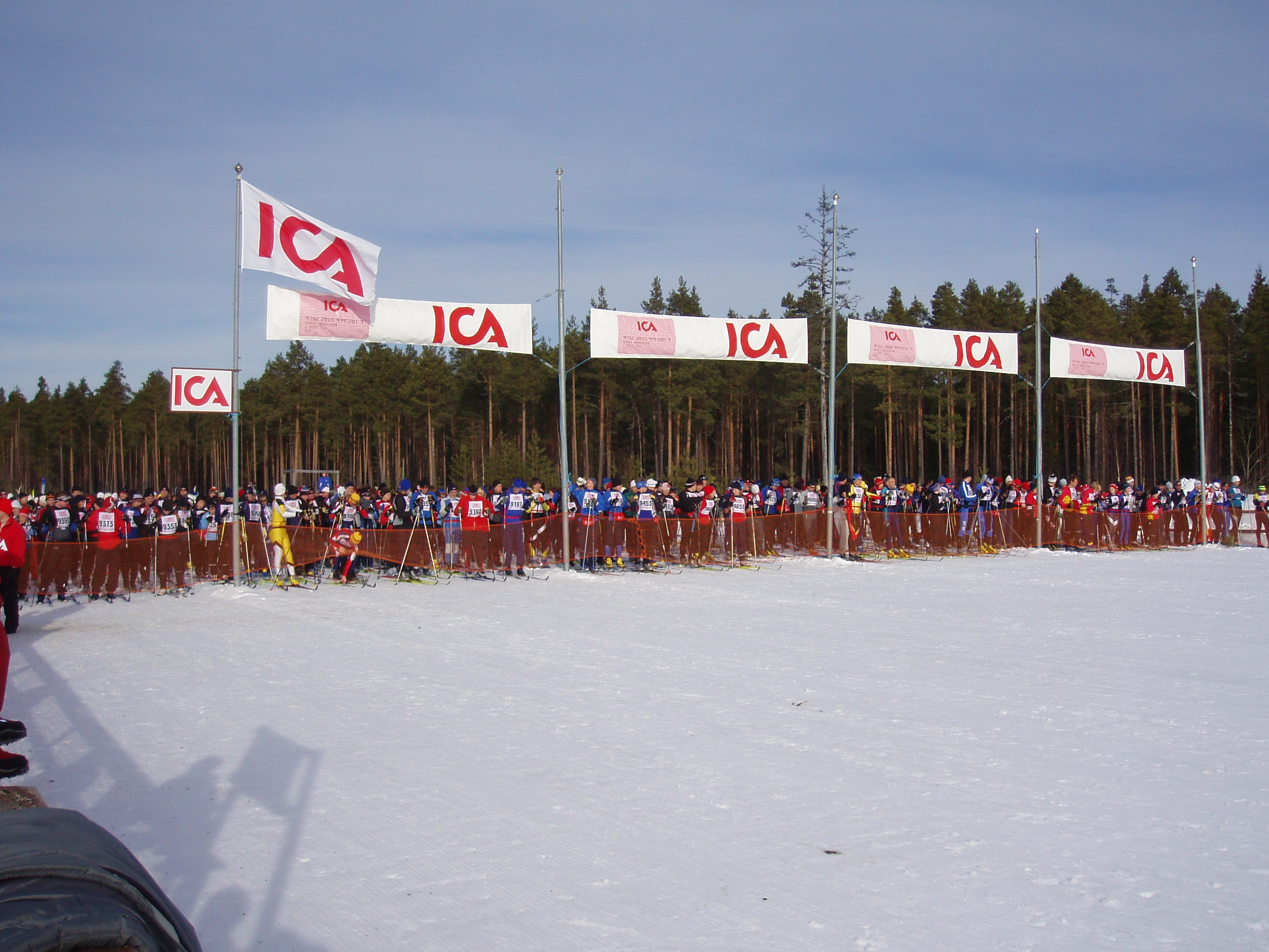 The starting point of Kortvasan (Vasaloppet) at Oxberg, Sweden. February 25th 2006